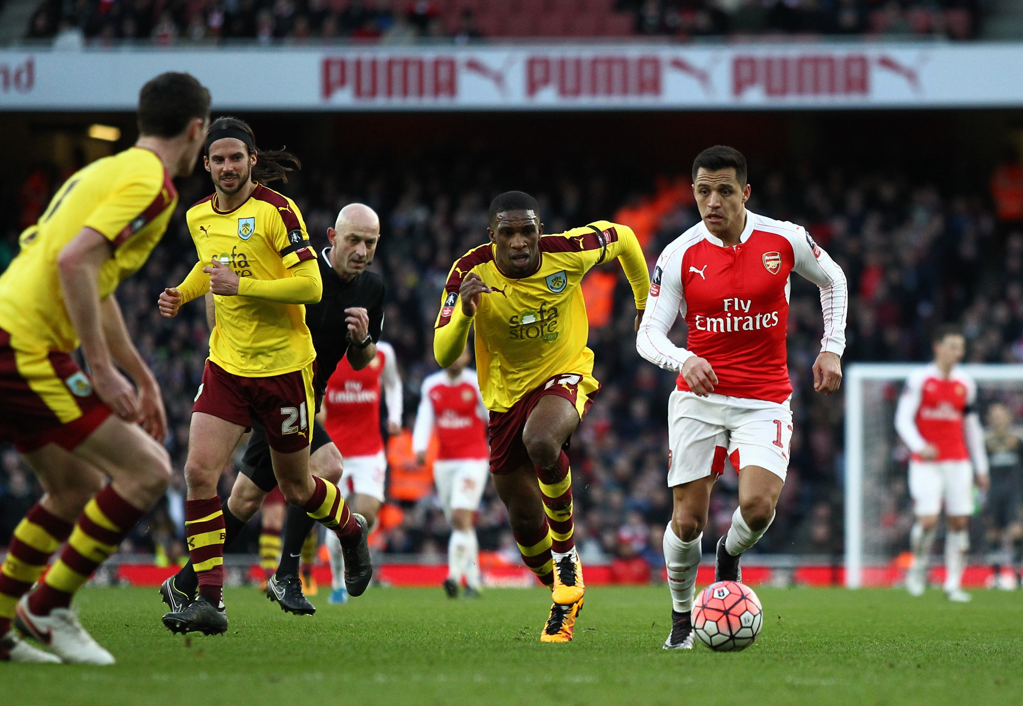 Alexis Sanchez of Arsenal on the ball during the game against Burnley.